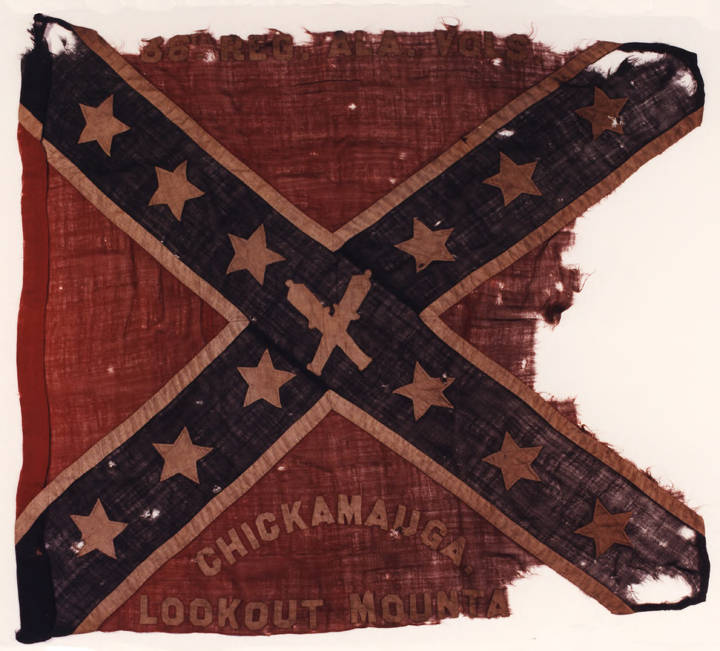 Flags of this pattern were manufactured in Mobile, Alabama, and issued within the Department of Alabama, Mississippi and East Louisiana. This flag was issued to the regiment between February 25th and May 15, 18642. According to documentation received with the flag, it was carried by flag bearer Joseph W. Tillinghast during an assault on a four gun battery at Atlanta. Following the surrender of the regiment at Meridian, Mississippi, Tillinghast crept back under cover of darkness and removed the flag from its staff. He wrapped the flag around his upper torso and covered it with his clothing, then slipped away undetected. Tillinghast retained the flag after the war. A letter from John J. Mahan of Greenville dated June 23, 1908 along with Archives' Director Dr. Thomas Owen's reply of June 25, 1908 support the story that the flag was saved by color bearer Joe Tillinghast and brought home after the war. Owen was especially interested in the flag since his father had served in the 36th Alabama Infantry. Owen wrote Mr. Tillinghast on at least two occasions concerning the flag yet, received no reply. Following Tillinghast's death, the flag became the property of his son, Joseph Winter Tillinghast Jr. On May 19, 1957 the widow of J. W. Tillinghast Jr. of Decatur, Georgia wrote the Department stating that her husband had passed away in March and that she was looking for an appropriate home for the flag. After a brief correspondence with Archives' Director Peter Brannon, Mrs. Tillinghast donated the flag to the Department. It was received on May 28, 1957. This flag is one of four nearly identical flags in the Department's collection which were carried by regiments within the brigade of Brigadier General H. D. Clayton at the Battle of Resaca, Georgia.